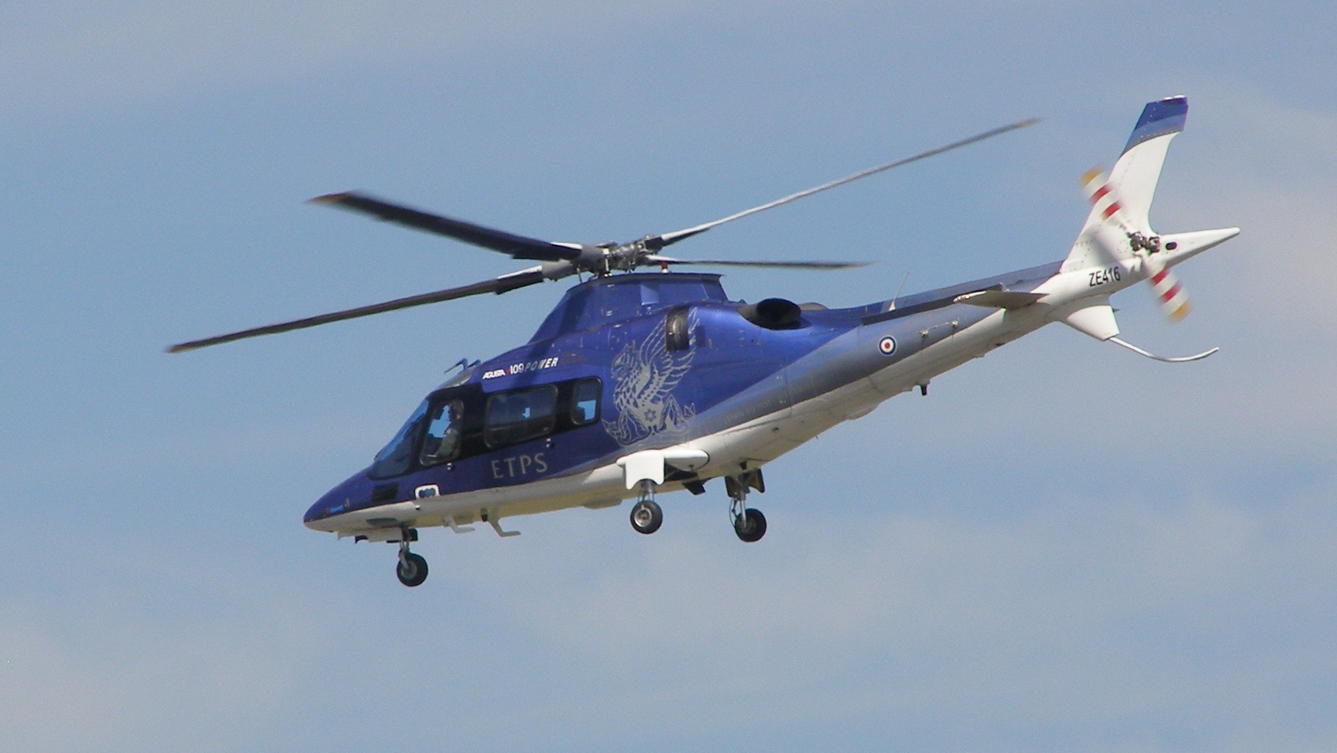 ZE416 is an Agusta A109E helicopter built in 2004 and operated by the Empire Test Pilots' School. It is departing RAF Fairford after being on display at the 2010 Royal International Air Tattoo.